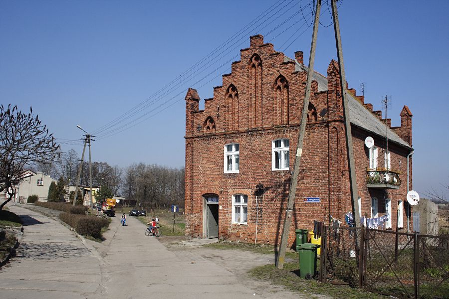 Synagogue in Radzyn Chelminski